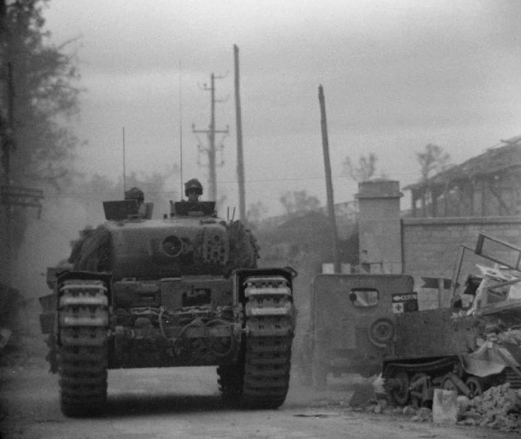 Churchill AVRE of 79th Armoured Division moving into Caen